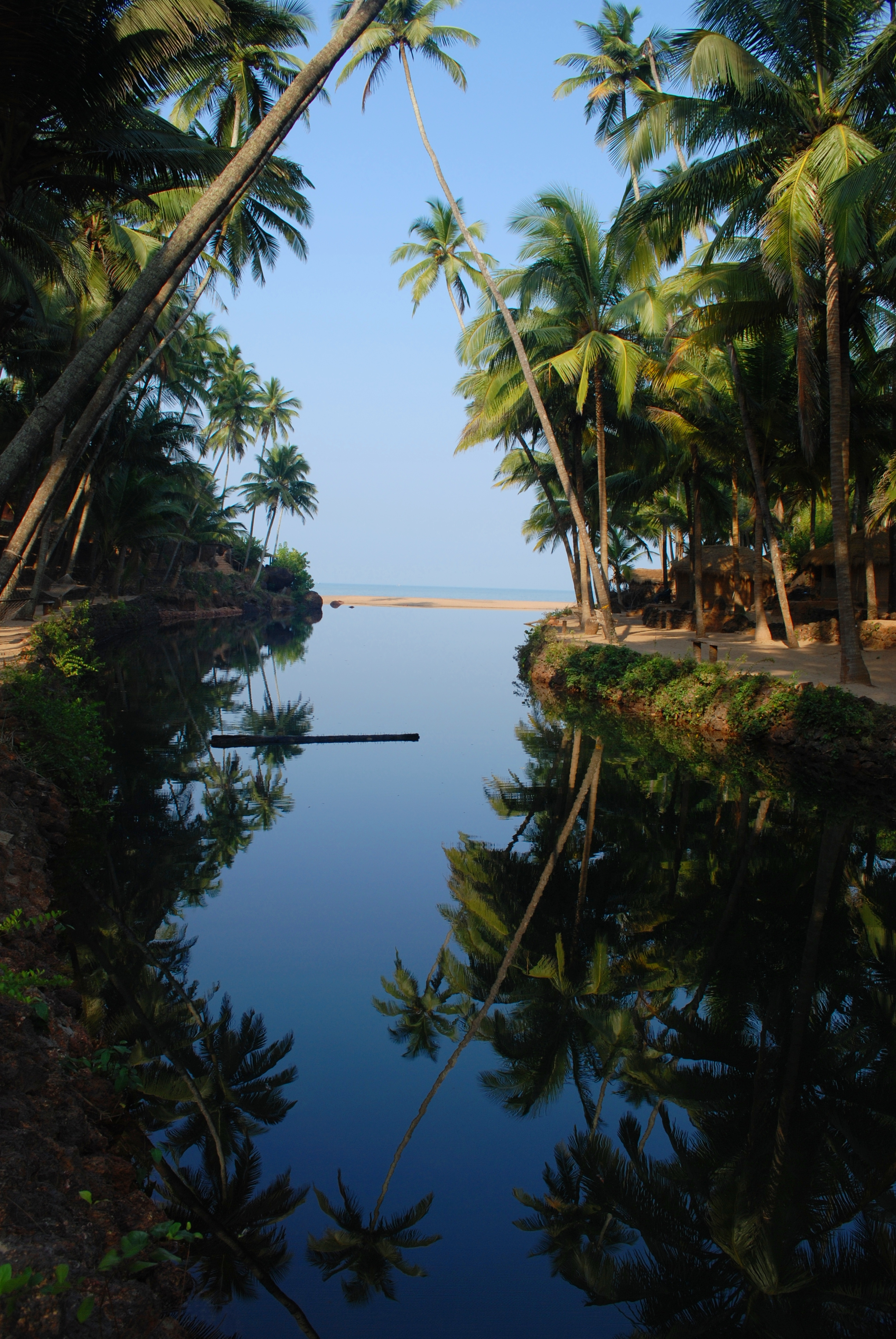 That's how my friend had described Kerala. But this is no Kerala. This is Goa! I absolutely loved this place.